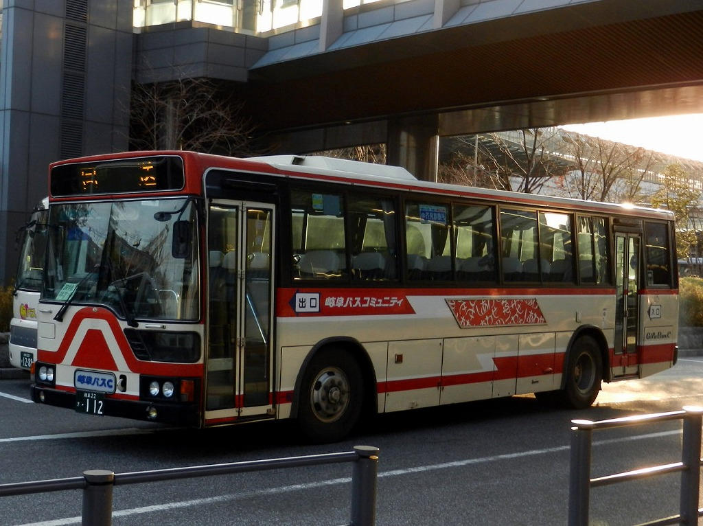 Gifu bus community Mitsubishi Fuso Aero Star M (P-MP218M)